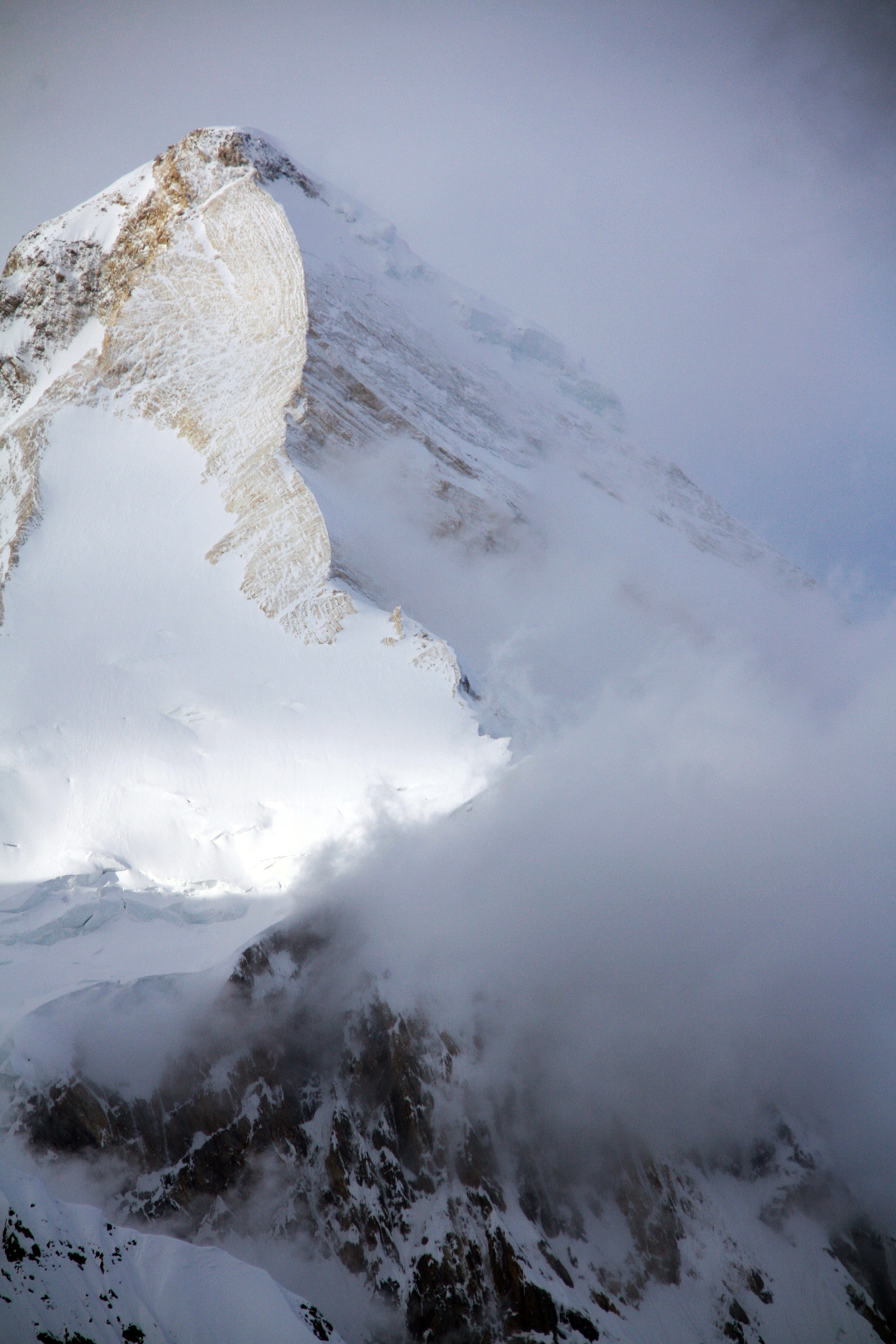 Khan Tengri (6995 m), Tian Shan, "marble rib" route, USSR grade 6a.